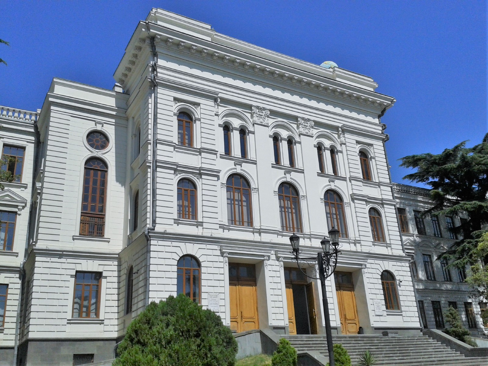 Tbilisi, Georgia — Tbilisi State University, I Corpus's front view